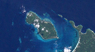 This satellite image (Landsat 7) shows Makada Island in the north of Duke of York Islands, Bismarcksea, Papua New Guinea